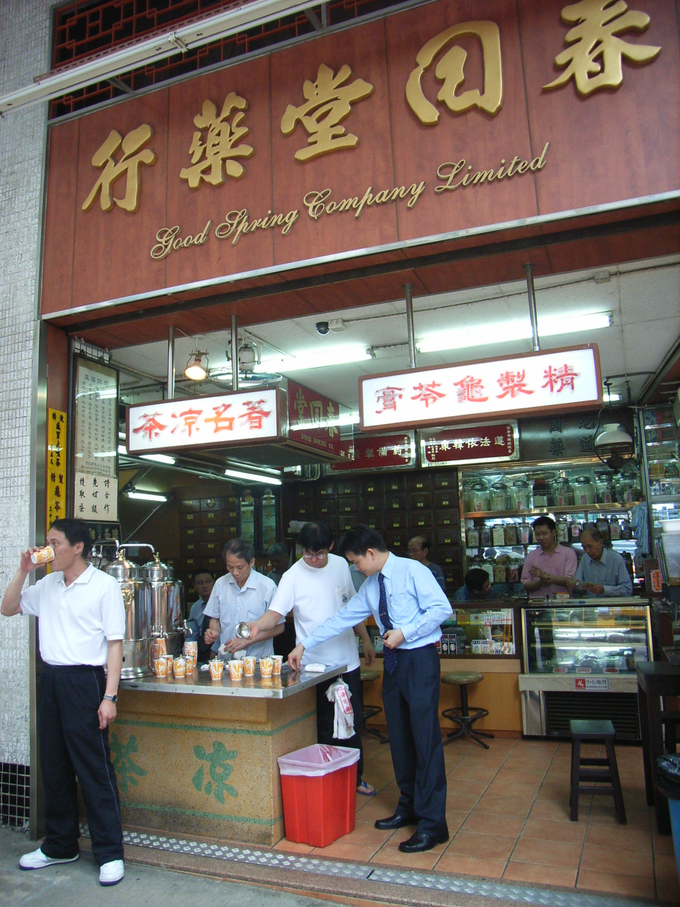 A famous Chinese herb tea shop in Central Hong Kong - Good Spring Company Limited 春回堂涼茶 by TangHon